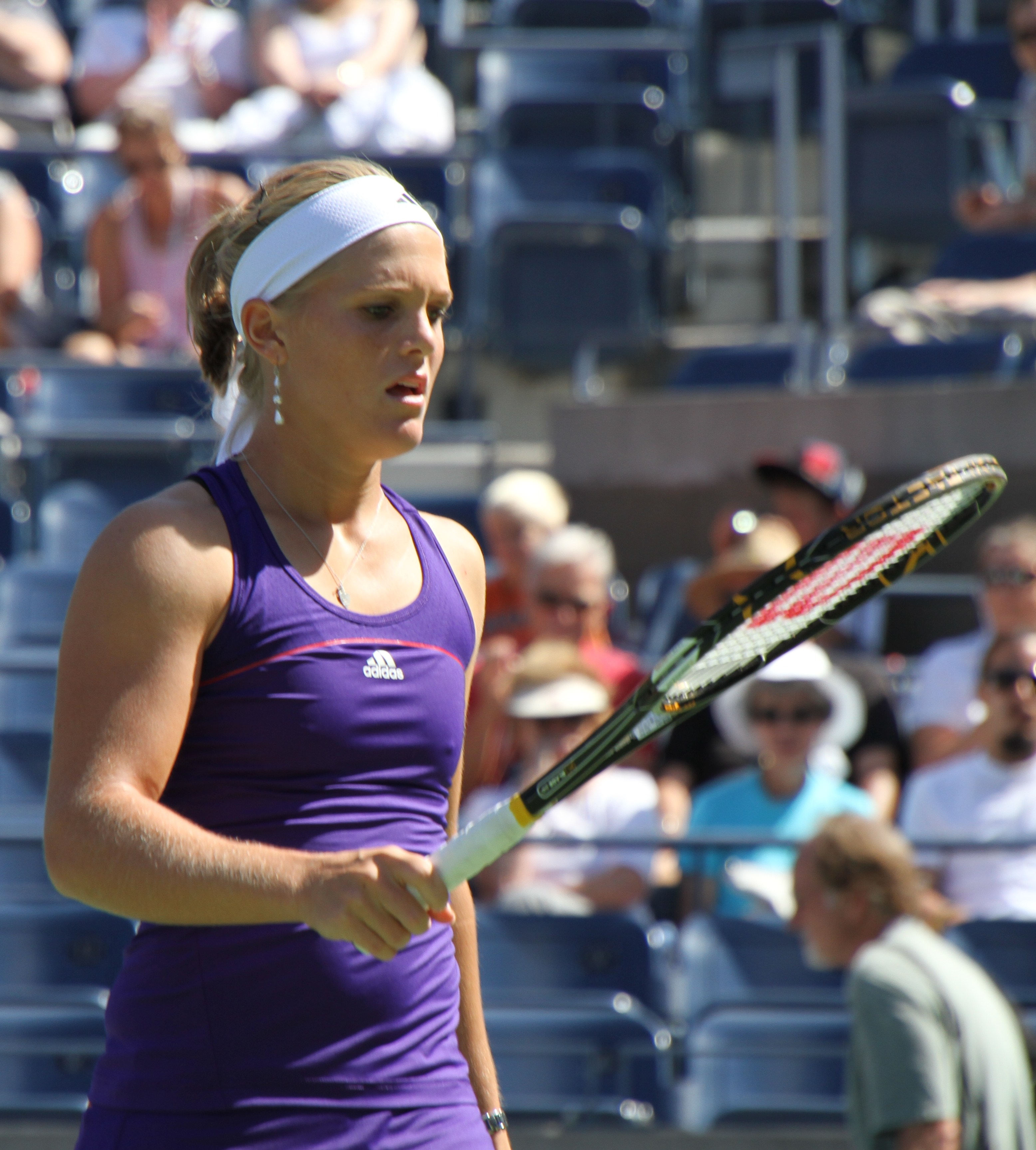 Melanie Oudin at the 2010 US Open